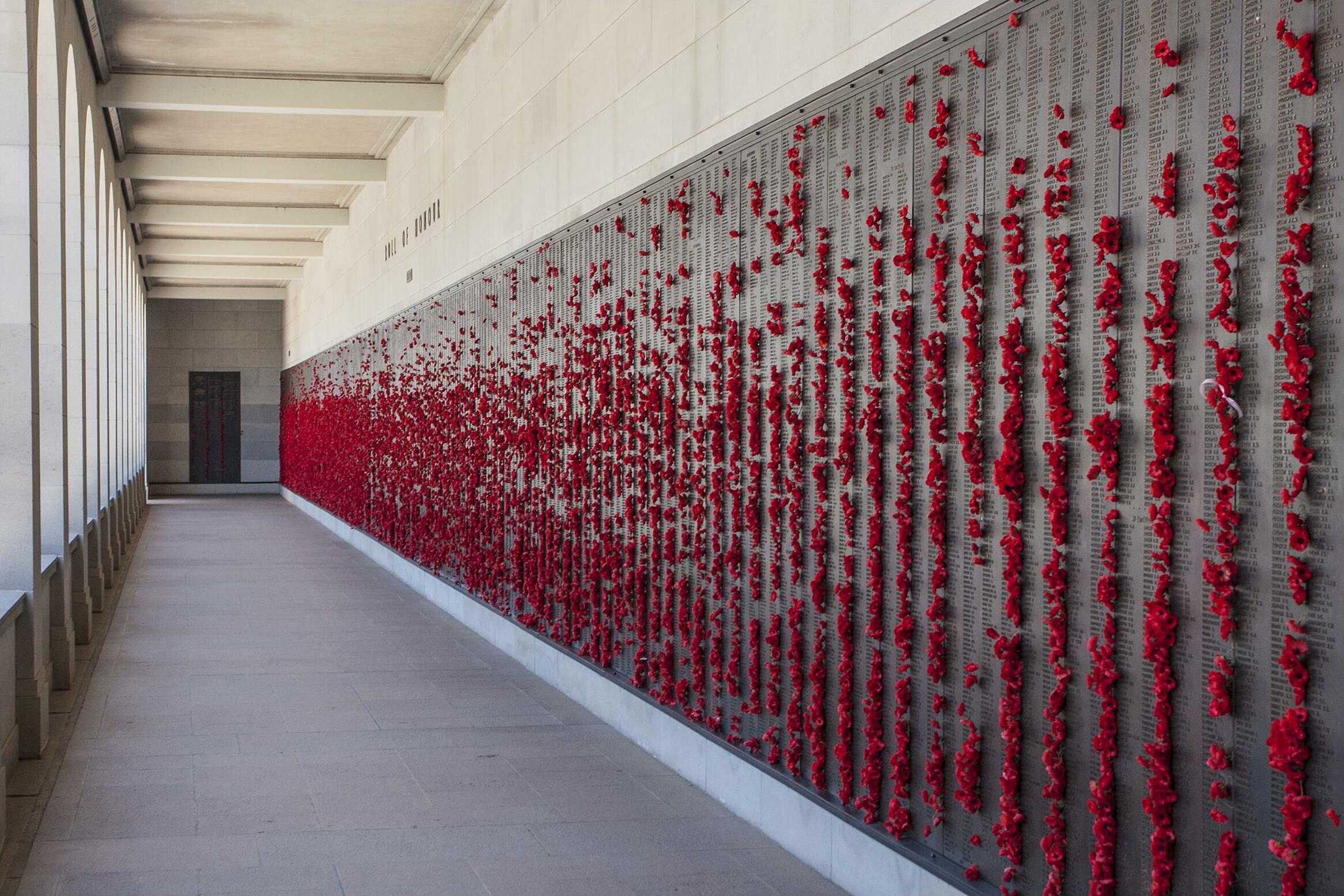 AWM Honour Roll and Poppies to left